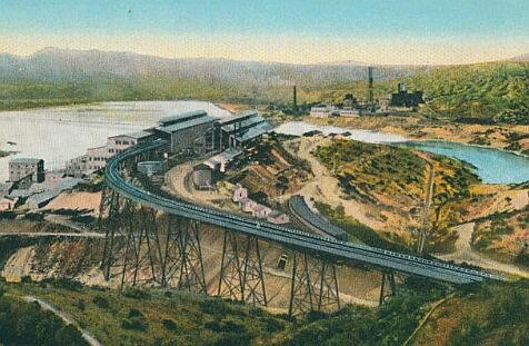 Inspiration company copper smelter at Miami, Arizona, c. 1915; colorized postcard published before 1923